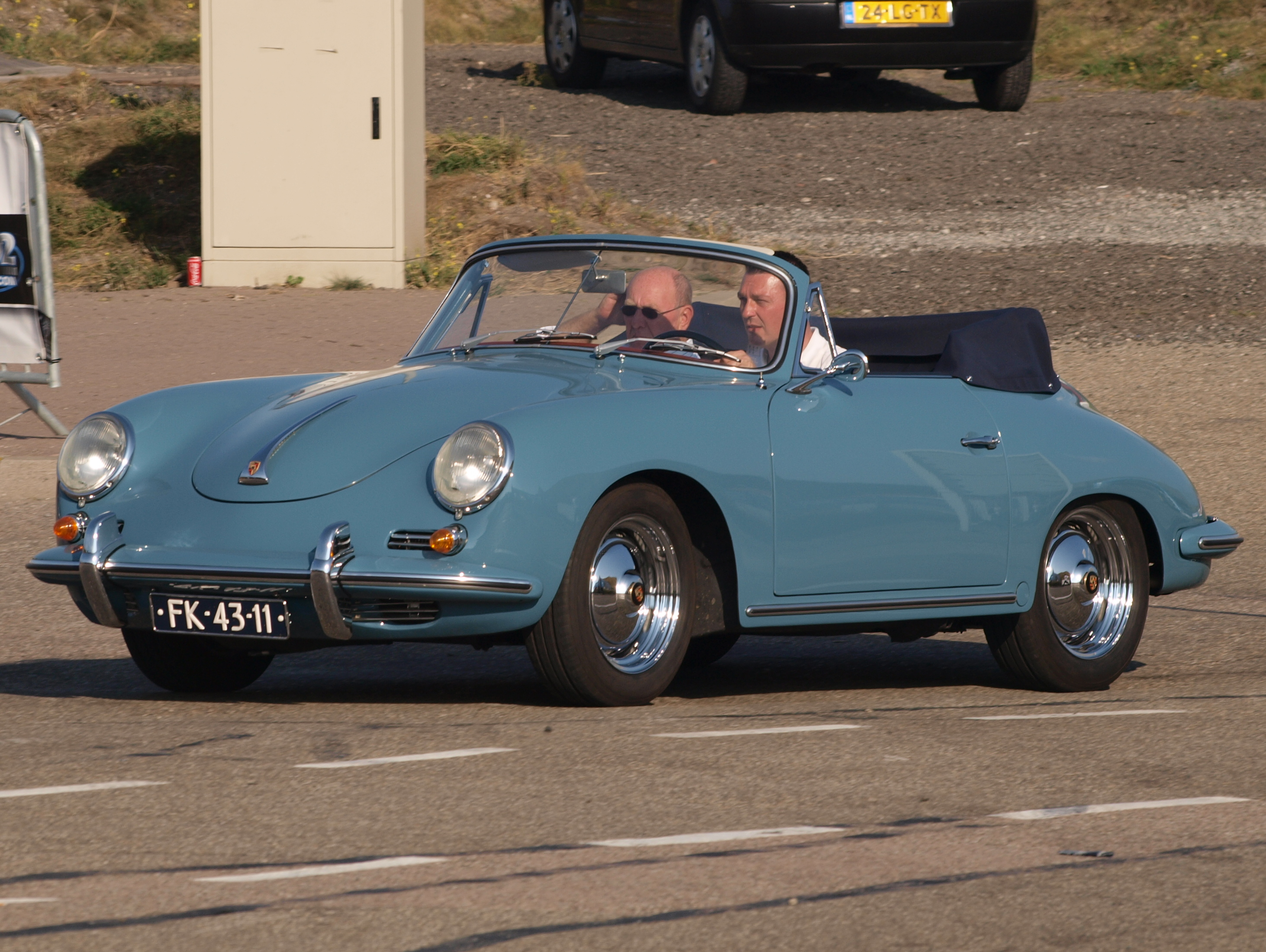 Photographed at the Nationaal Oldtimer Festival Zandvoort 2009, The Netherlands. OLYMPUS DIGITAL CAMERA